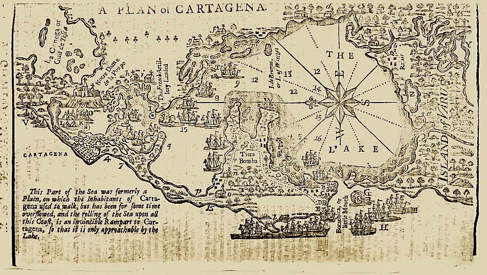 Map of Carthagena